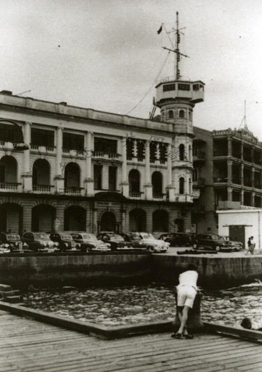 The Marine Department Headquarters Building in Sheung Wan in the 1950s. The coastline was Connaught Road Central and later reclaimed.